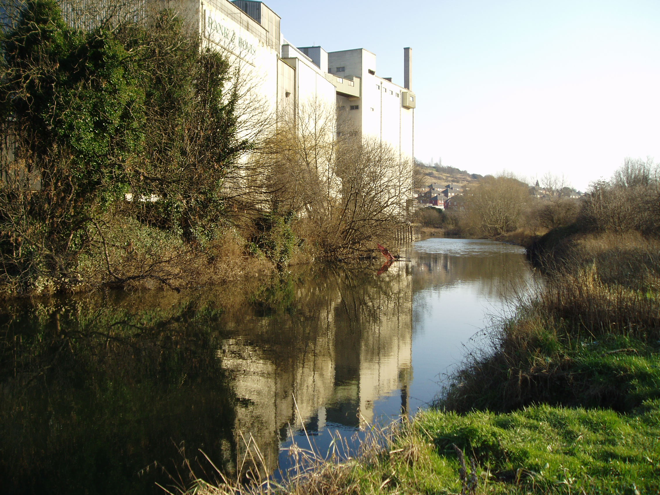 River Rother near its junction with River Don